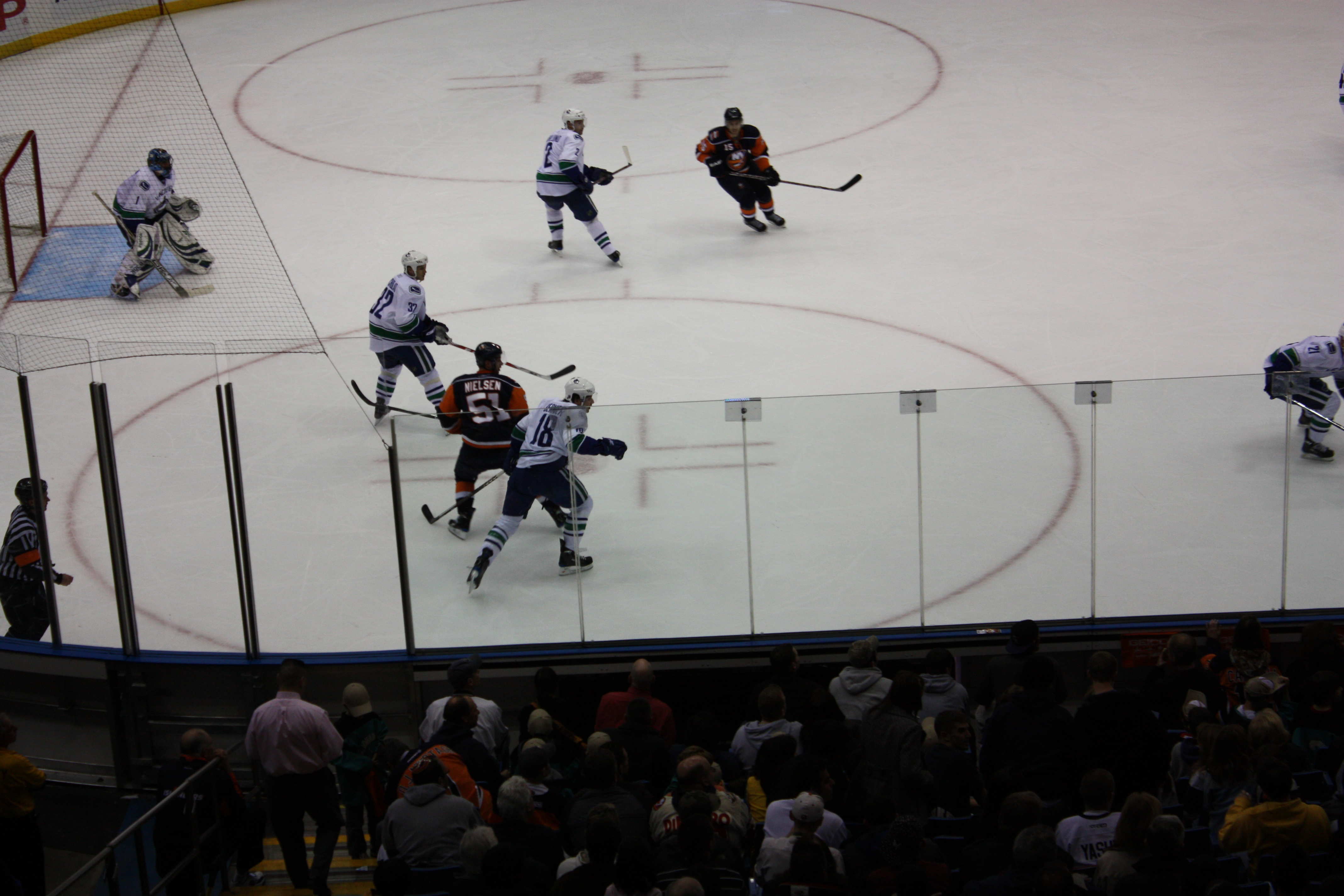 New York Islanders vs Vancouver Canucks November 2008